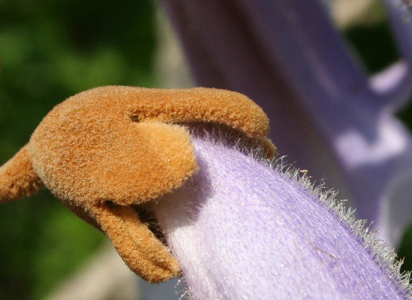 Paulownia spec. – "Fuzzy Sprout. Paulownia trees suppossedly came to this country because the seed pods had fluffy seeds that made good packing material." Taken on May 6, 2006.